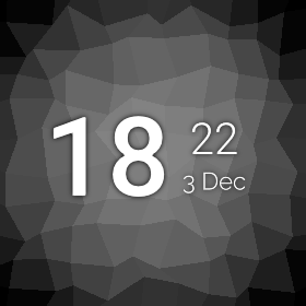 AsteroidOS 1.0 screenshot